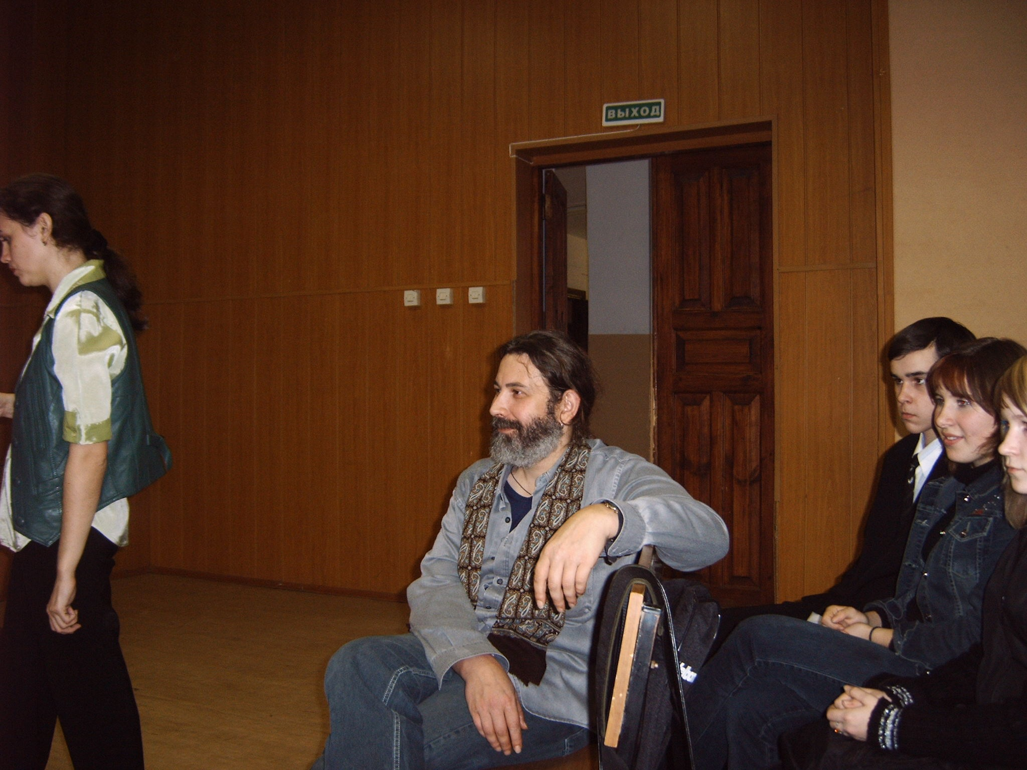 Playwright Vadim Levanov with students when working on plays in the framework of the project "Class Act". Assembly hall of the school № 13, Central district, Togliatti, Russia.